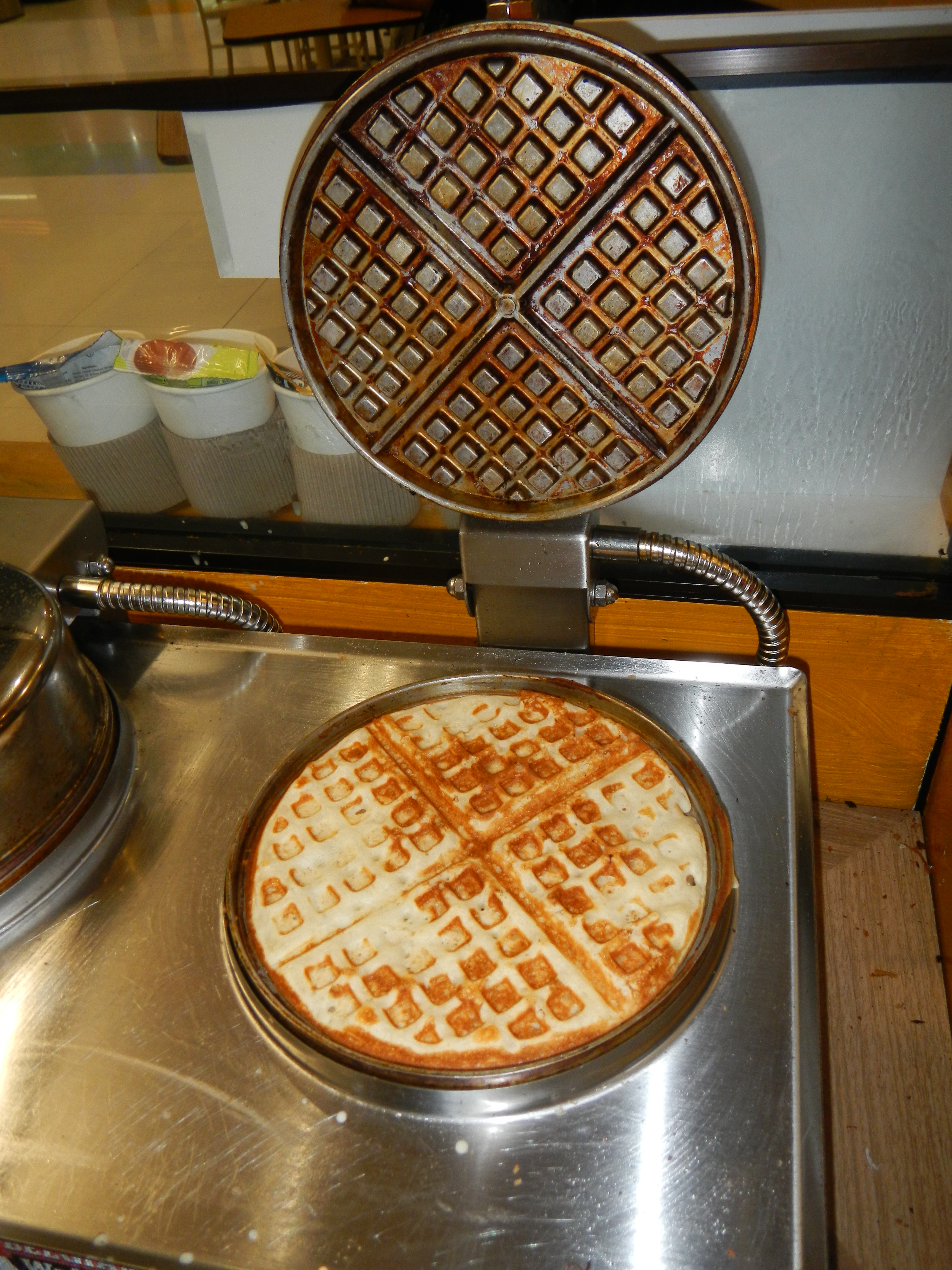 Famous Belgian waffles [1] Innovention Food Asia Co., the owner and operator Unit 30H Excelsior Tower 2, Eastwood City Libis, Quezon City 1110[2]